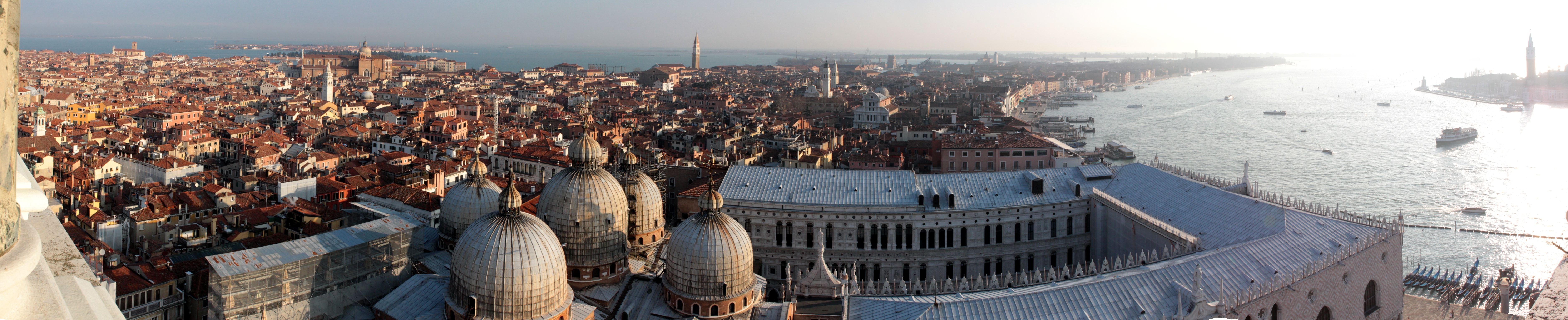 A view of Venice from the tower in San Marco square.